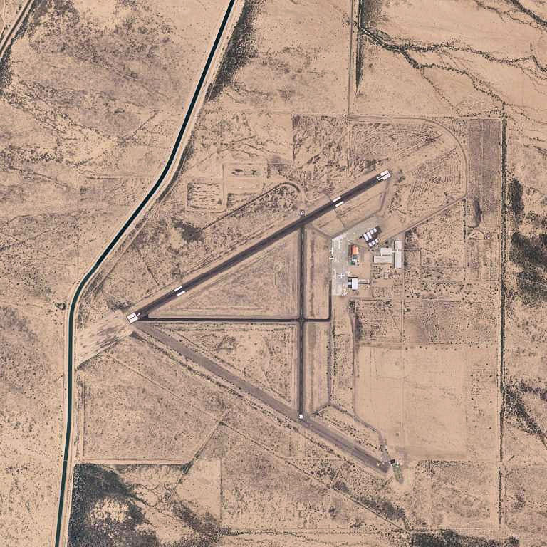 USGS digital orthophoto of Coolidge Municipal Airport in Coolidge, Pinal County, Arizona, United States